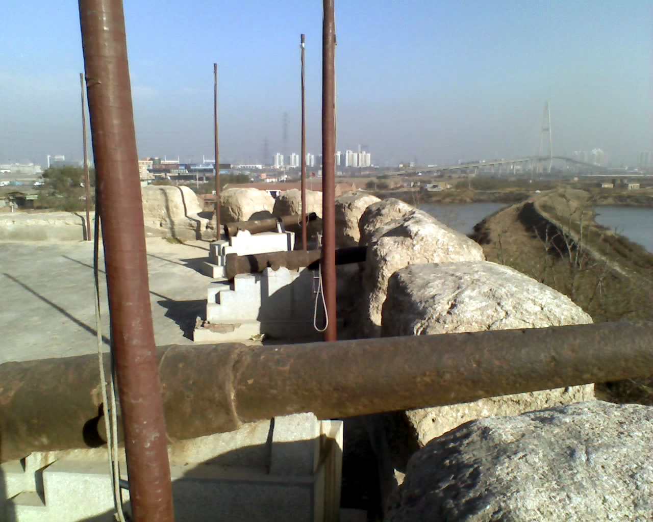 View of the gun platform of the restored fort.